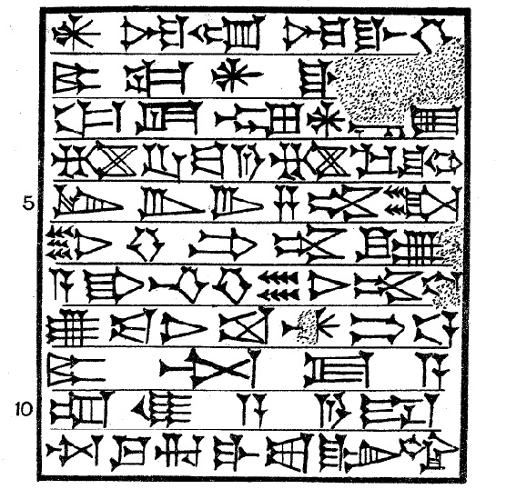 Seal of expert accountant Uballissu-Marduk, BM 114704, ca. 1325 BC Cuneiform line 1--dnin-súmun nin gal-di 2--dumu sag an gal-[la?] 3--sa12-du5 maḫ den-líl 4--nam-kù-zu níg-nam-ma šu-du7 5--lú kin-kin-za ḫé-li 6--in-di-bi ḫé-sa6 7--a-ga-na ki? še-er-kán -d[u] 8--Ú-Ba-Lí-Su-dAMAR.UTU 9--dumu ìr-é-a 10--um-mi-a níg-kas7 11--ìr Ku-Ri-Gal-Zu lugal kiš English line 1--Oh, Ninsumum, mighty lady, 2--eldest daughter of the great An, 3--chief land registrar of Enlil, 4--whose wisdom makes everything perfect: 5--may he who seeks you rejoice! 6--and may his going be well, 7-- after he passed by, the land is well ordered. 8--Ubalissu-Marduk 9--son of Arad-Ea, 10--expert accountant, 11--servant of Kurigalzu, king-(LUGAL) of the world.